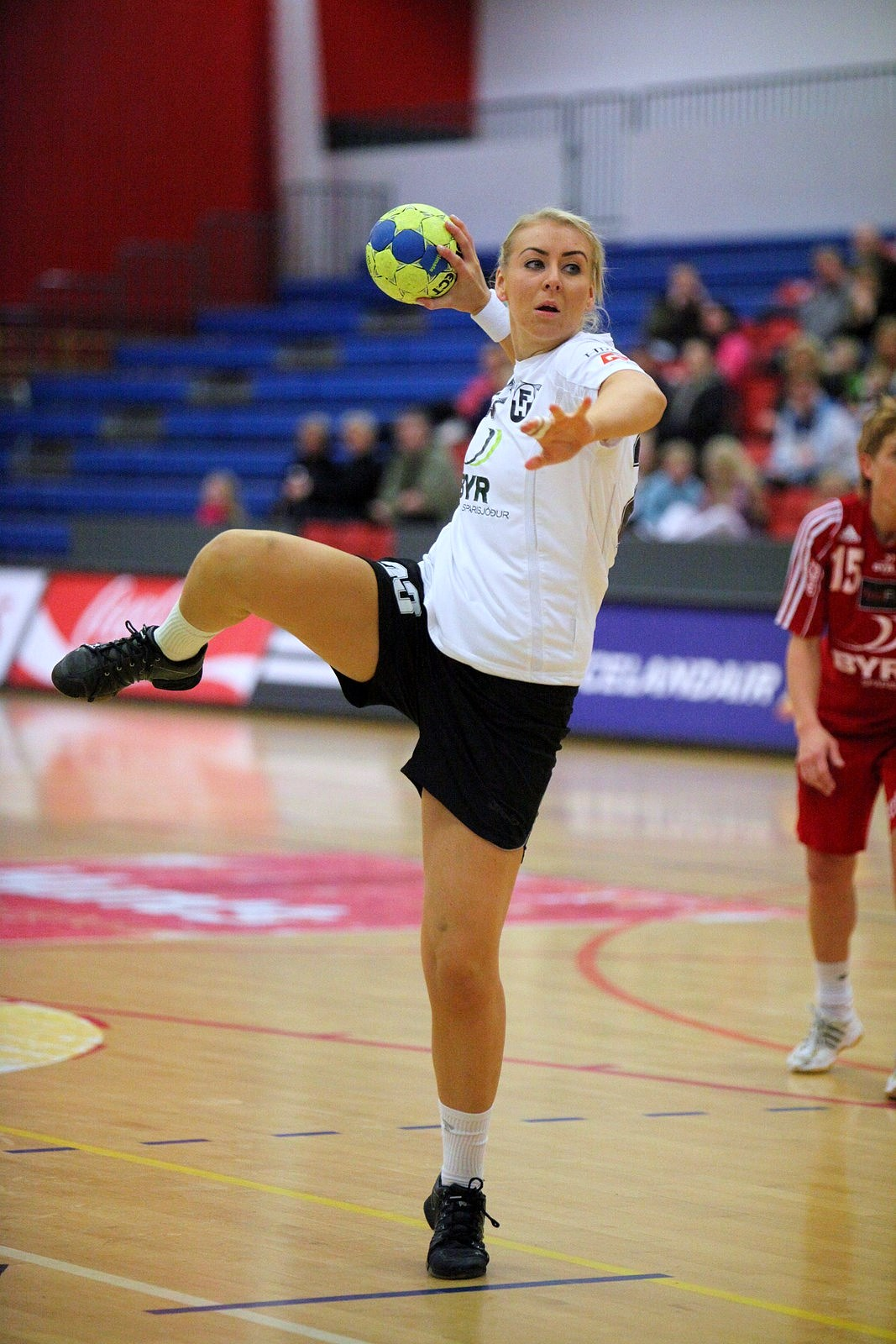 Ragnhildur Rósa Guðmundsdóttir of FH in a game against Haukar on January 24, 2009.